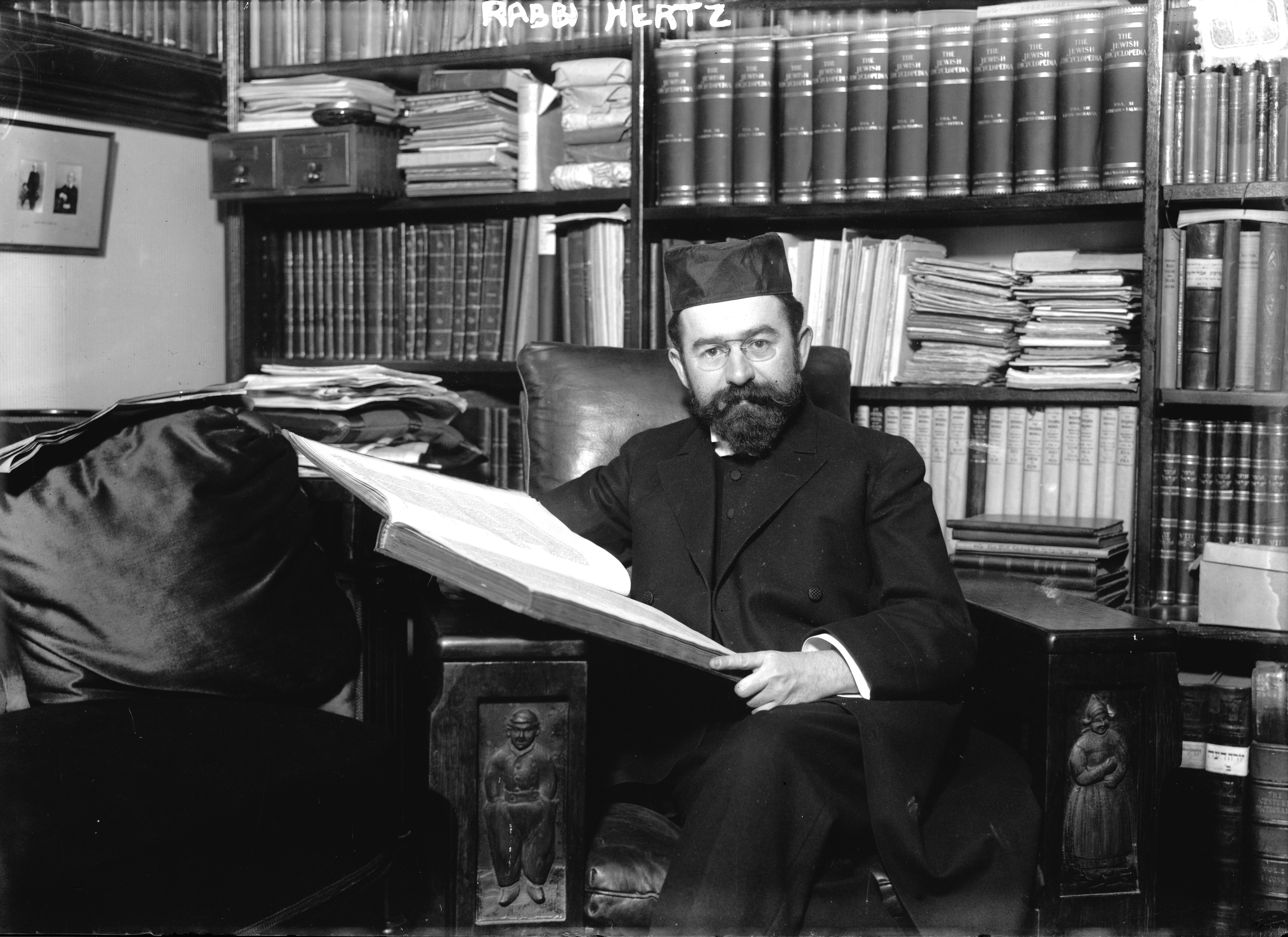 Rabbi Hertz. Photo shows Rabbi Dr Joseph Herman Hertz (1872-1946), who was elected Chief Rabbi of the British Empire in 1913. (Source: Flickr Commons project and New York Times archive, 2009.)